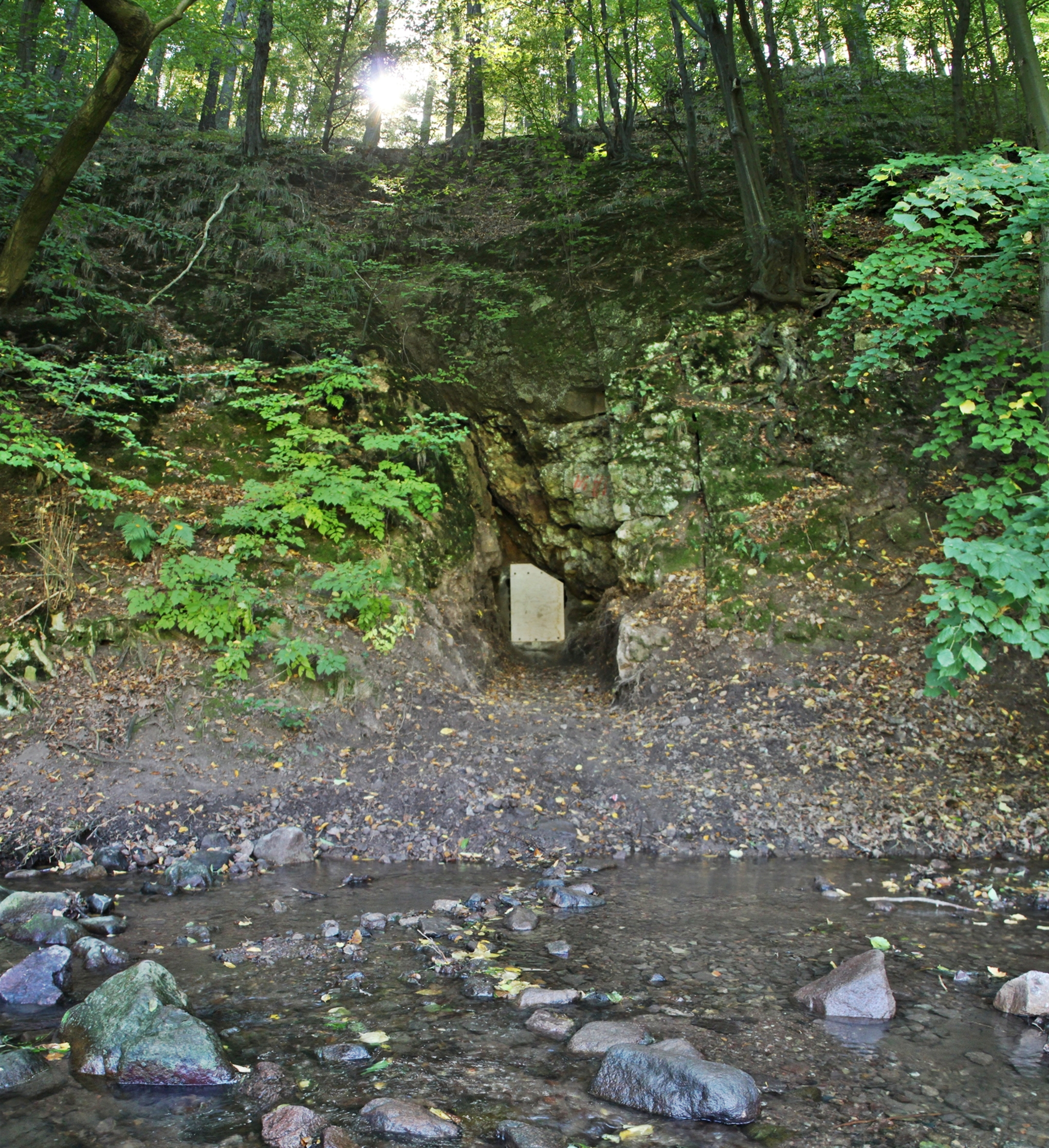 This image shows the portal of the closed silver-mine “Gabe Gottes Erbstolln” in the Zschonergrund near the Zschoner Mill in Dresden.